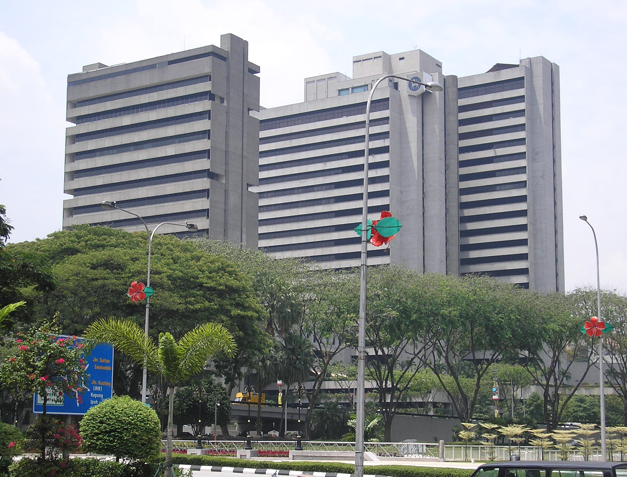 The Central Bank of Malaysia (Bank Negara Malaysia) headquarters in Kuala Lumpur, Malaysia, visible from Independence Square (Dataran Merdeka).